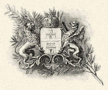 Coats Budapest